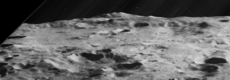 Highly oblique view of Chebyshev crater, on the far side of the moon, facing southwest. The mountain on the central horizon is the west rim of Kleymenov crater.